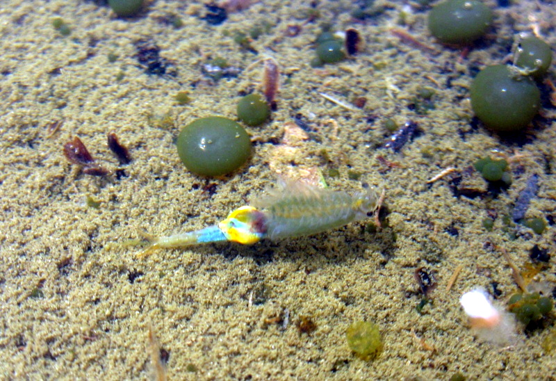 Branchipus schaefferi (fairy shrimp) in a Croix de la Garoute rock pool in Morières-Montrieux State Forest (Méounes - Provence)